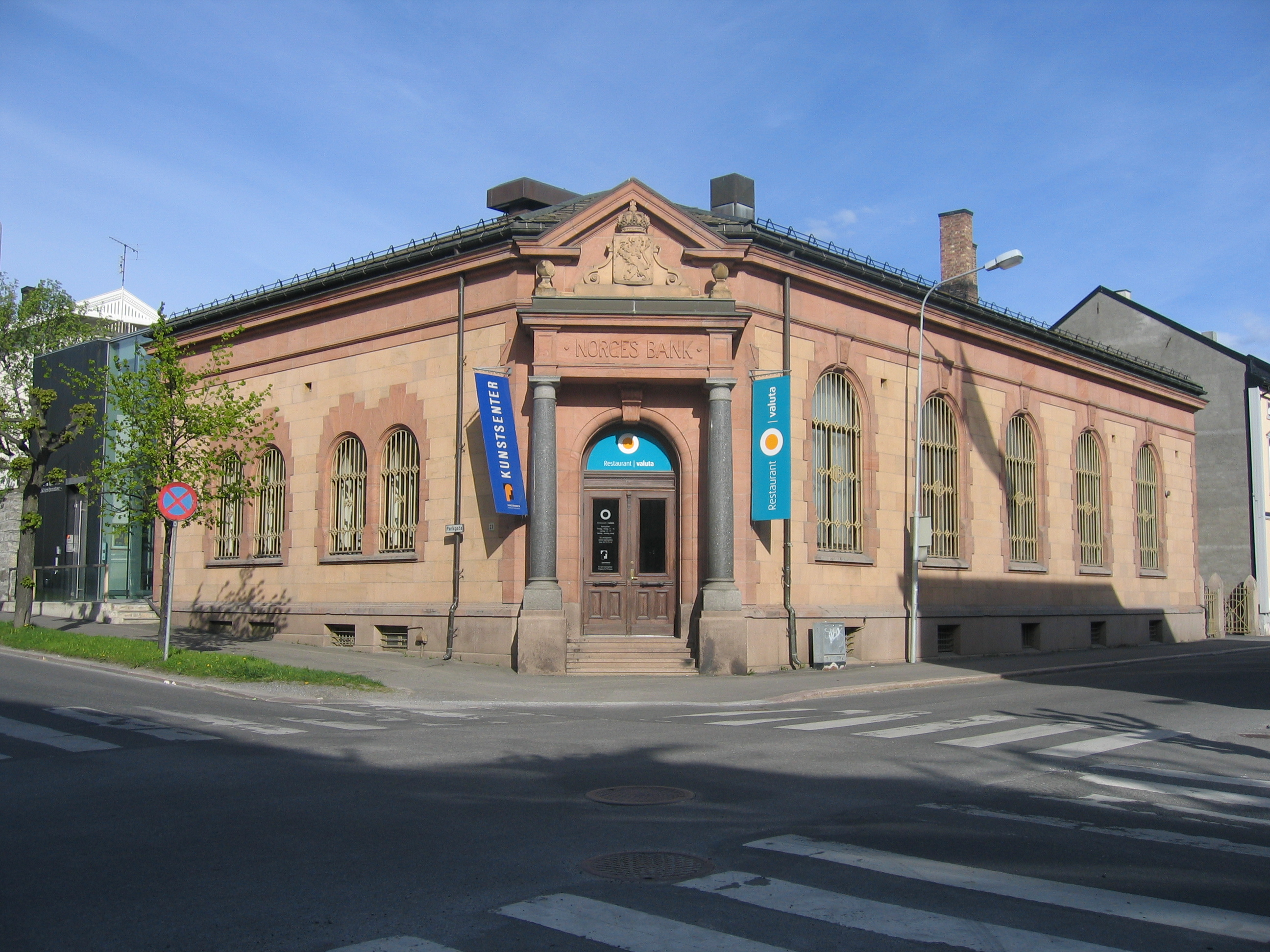 Kunstbanken ("Hamar Museum of Art"), Hamar, Norway. Built 1901. Architect: Victor Nordan.